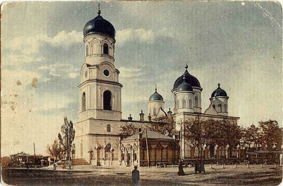 Екатеринославъ. Храмы/ Начала 20 века.